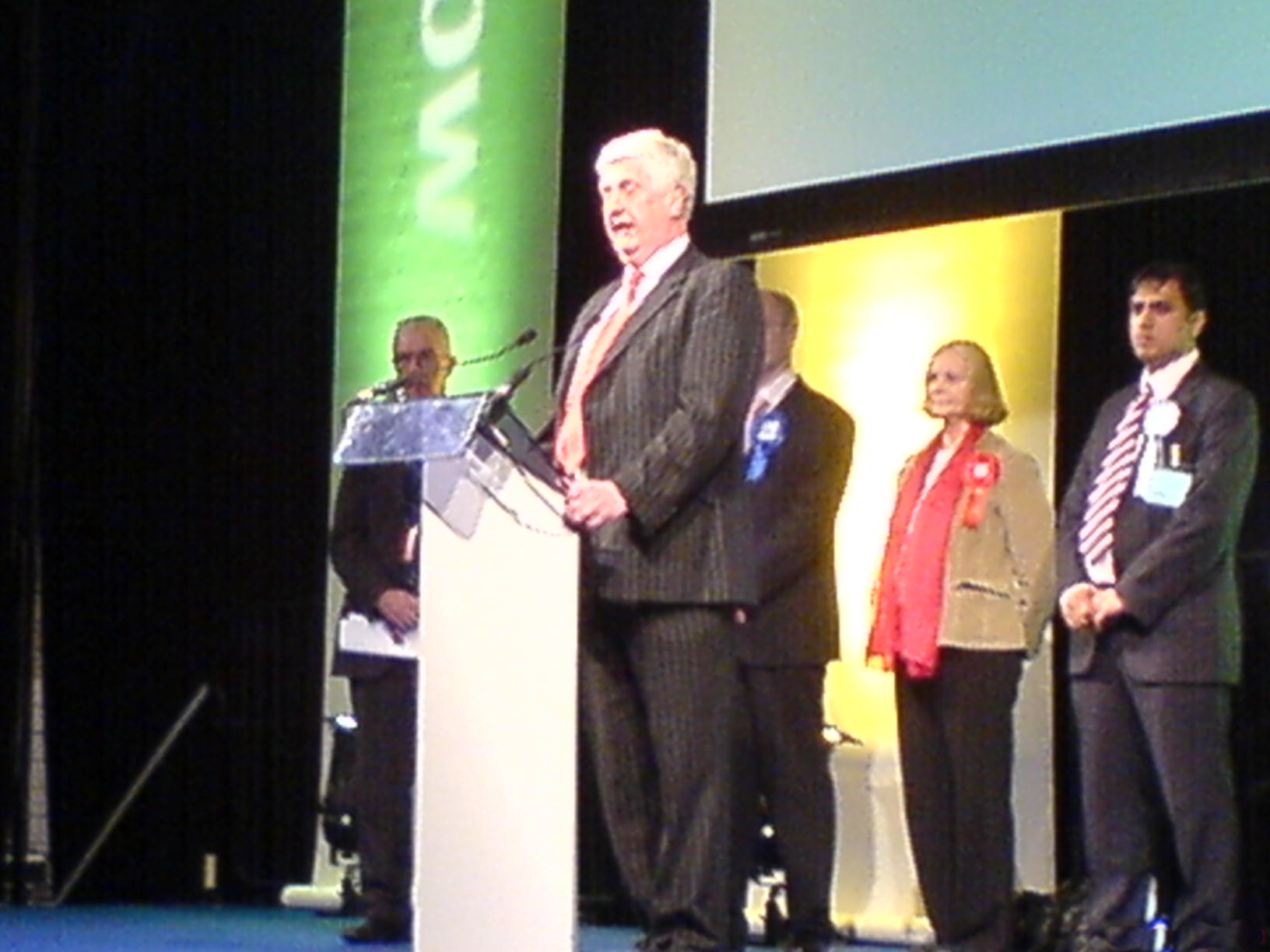 A picture I took of Gordon Jackson giving his acceptance of losing speech after the Scottish Parliament election. The picture was taken on the 3rd of May 2007. As detailed in the license, attribution must be given to me, Patrick McAleer, for non-wikipedia use of this image.